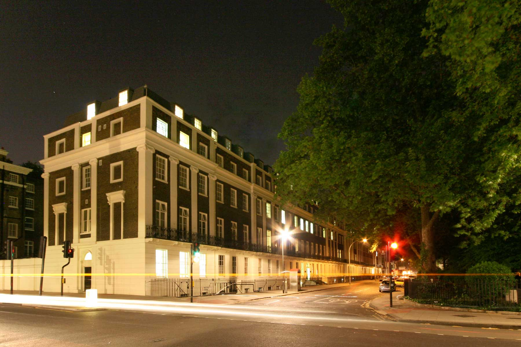 Connaught Hall at night Photography by A. Clark